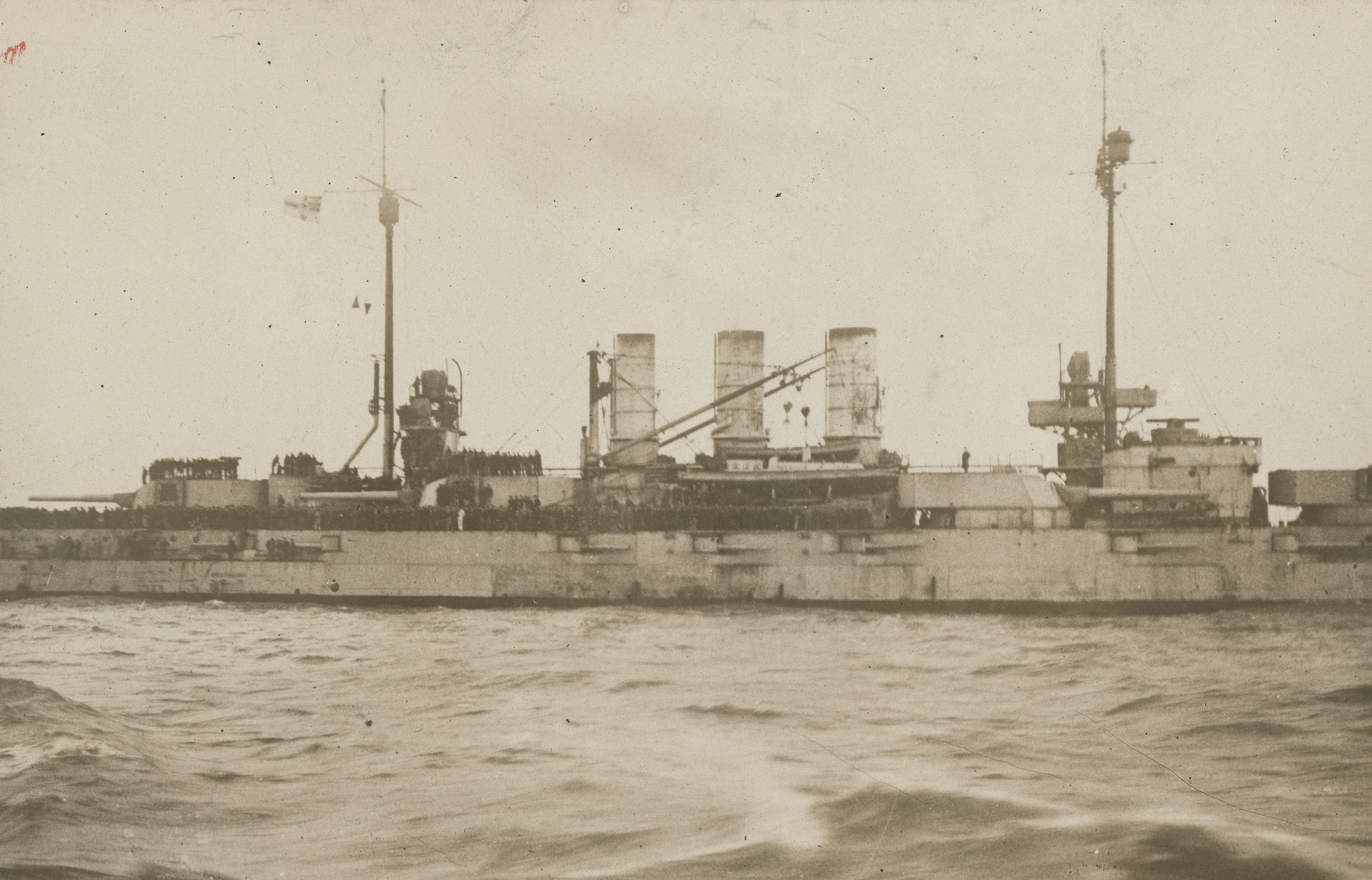 The german battleship SMS Helgoland steams back to Germany carrying sailors from Scapa Flow